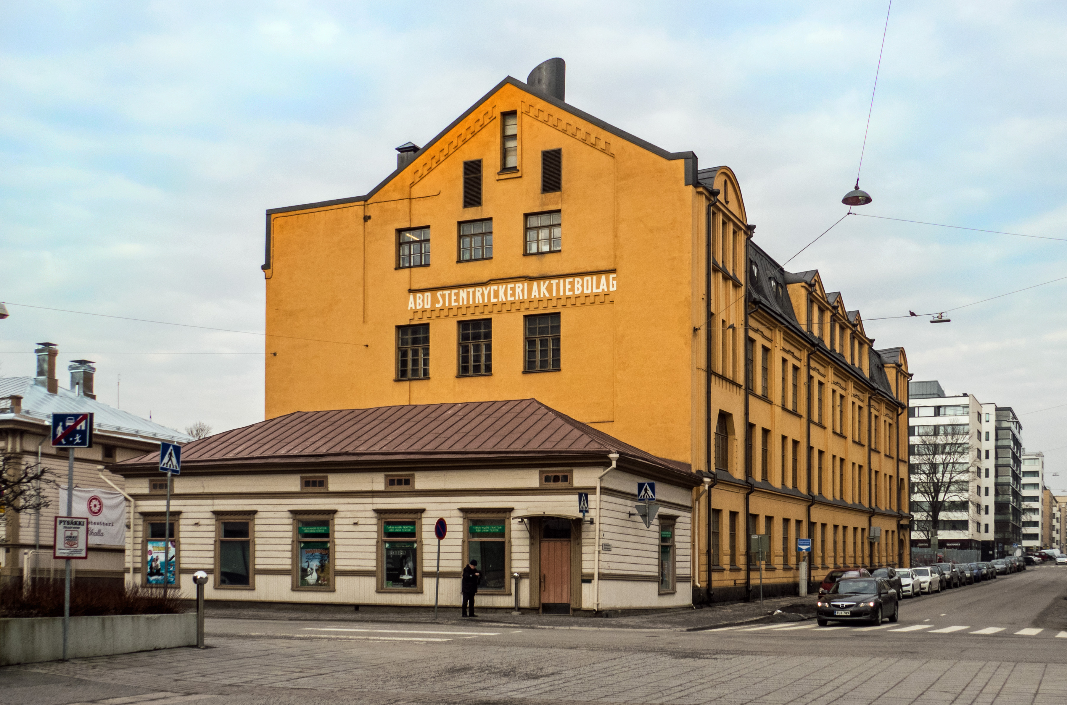 Turun Kivipaino – Åbo Stentryckeri, old lithographic press building, now housing theatre companies Linnateatteri and Turun Nuorisoteatteri. Location Linnankatu 31, Turku, Finland, Architect Stefan Michailow, completed 1909.